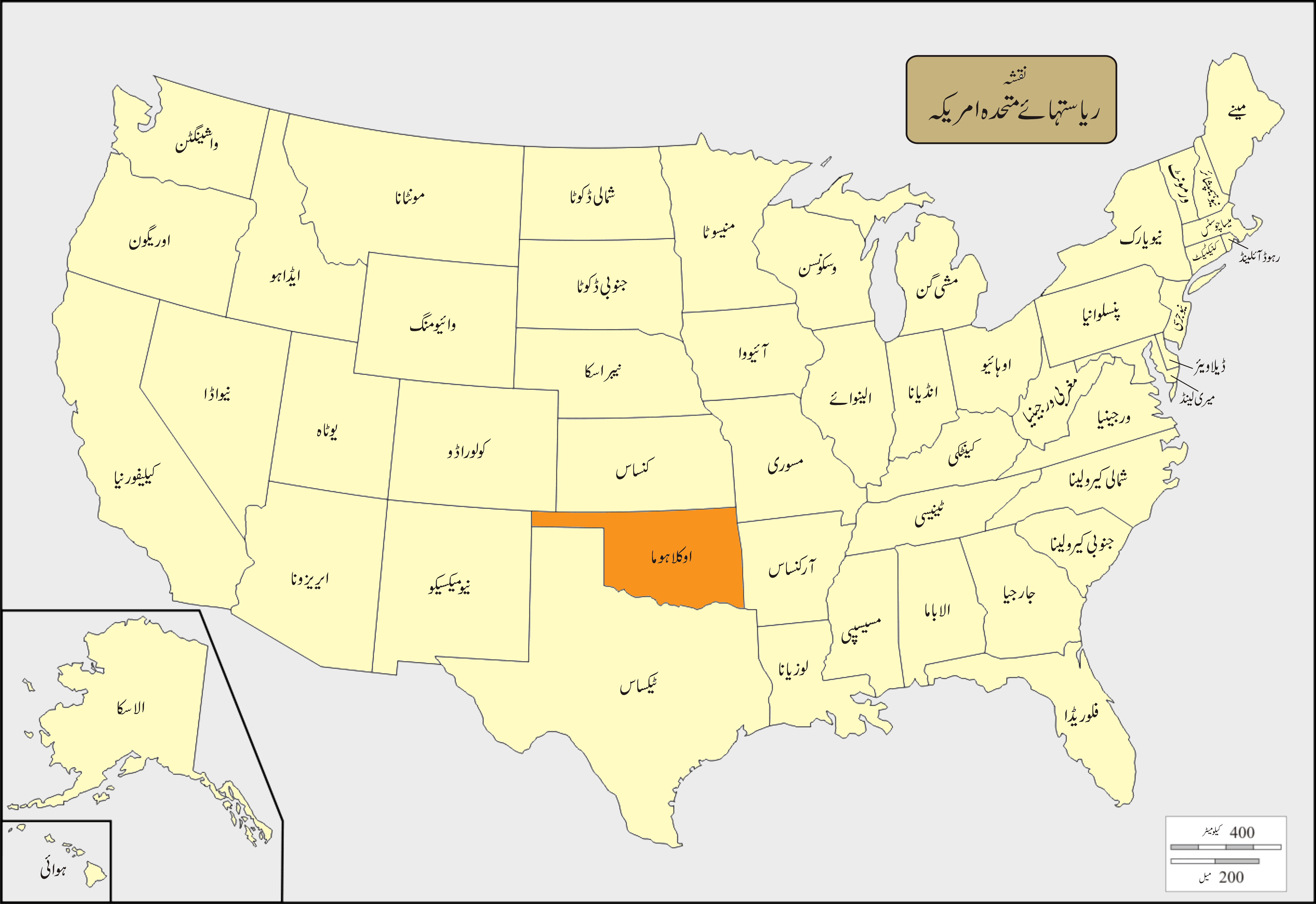 USA Names Oklahoma